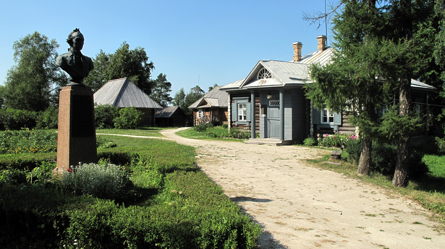 Suvorov museum in Konchanskoye-Suvorovskoye